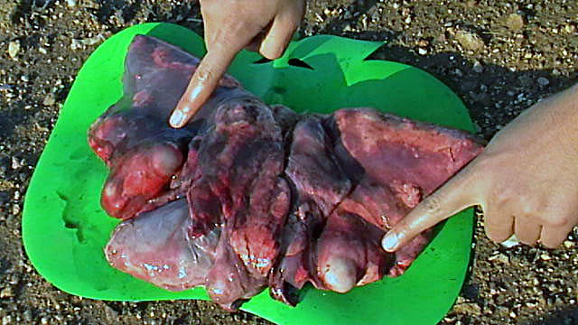 Echinococcus granulosus in lung of sheep Walon: kisses idatikes sol peumon d' on bedot